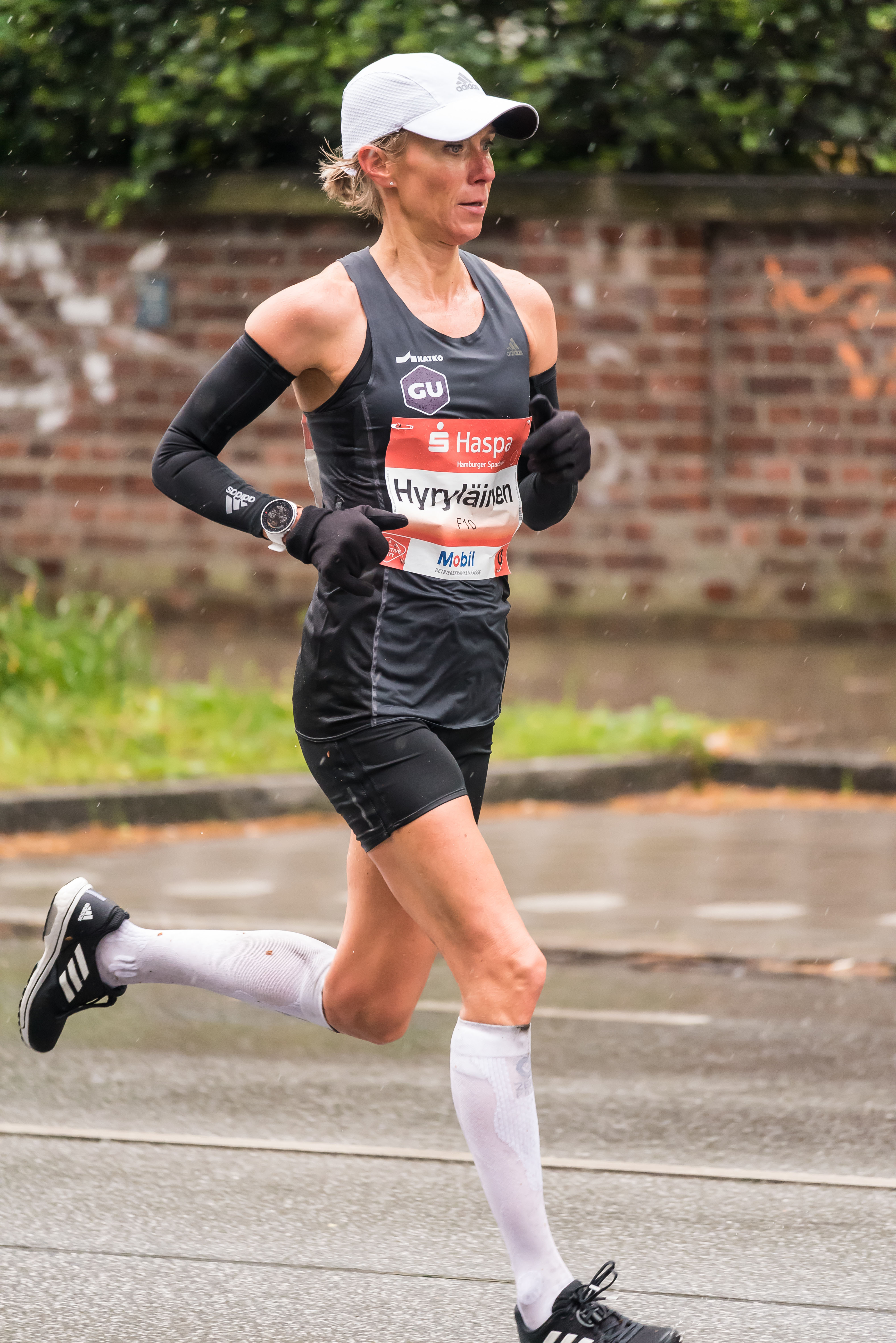 Finnish marathon runner Anne-Mari Hyryläinen competing at the Hamburg Marathon on 28 April 2019.